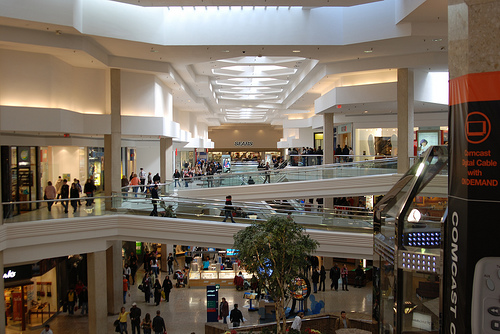 General internal view of one section of Woodfield Mall from the second level.